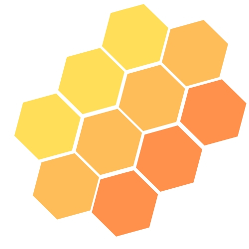 Its the graphical explanation of a module system.